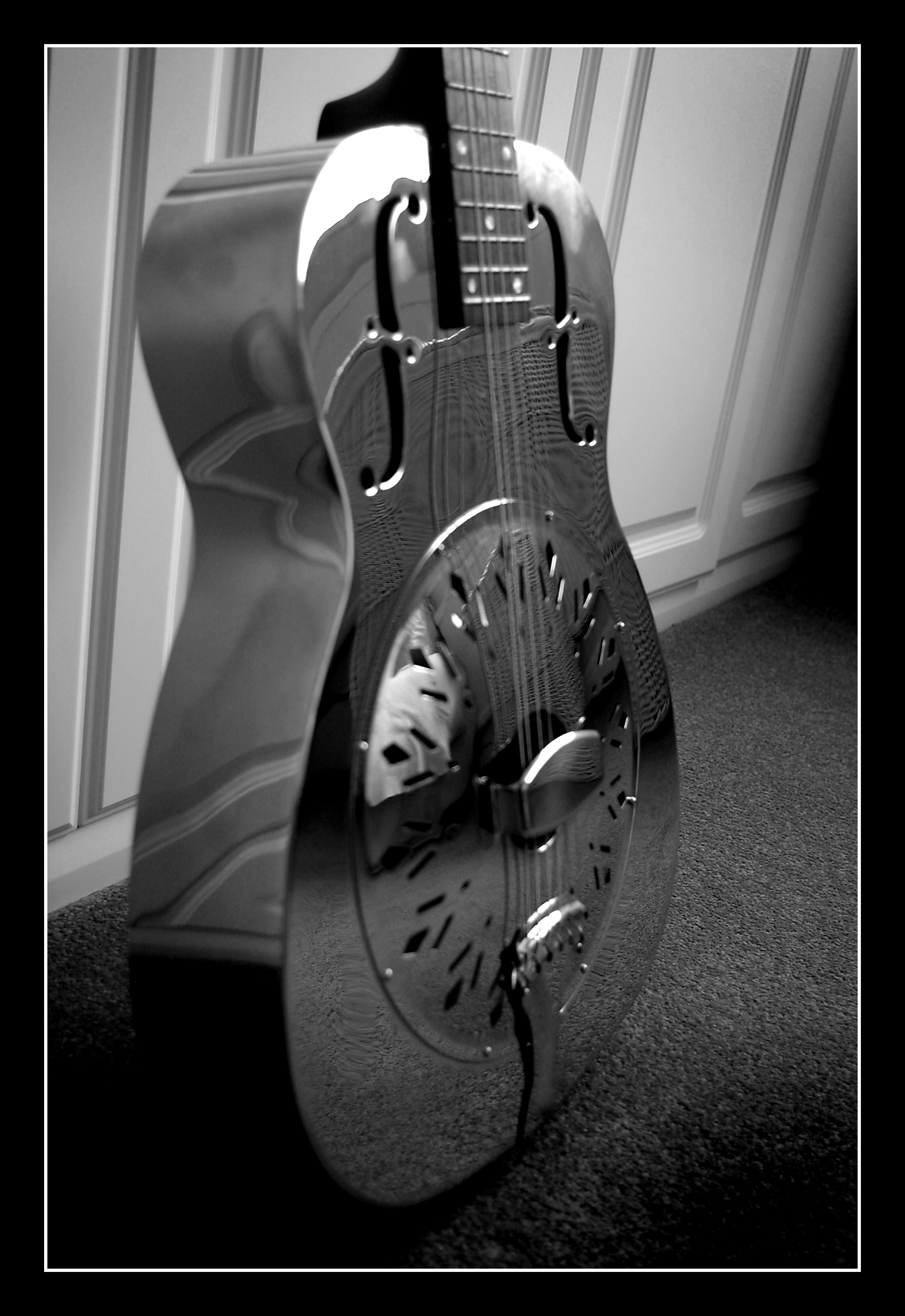 I've treated myself to a Vintage® AMG1 Resonator guitar. The AMG1 is a bell brass bodied resonator, with a chrome finish and a rosewood neck. It is a single cone resonator, loosely based upon a 1937 style O National guitar, and is best for blues slide guitar and ragtime finger picking. It plays best in open D and open G, and one slide up the neck transports you straight to the Mississippi delta.